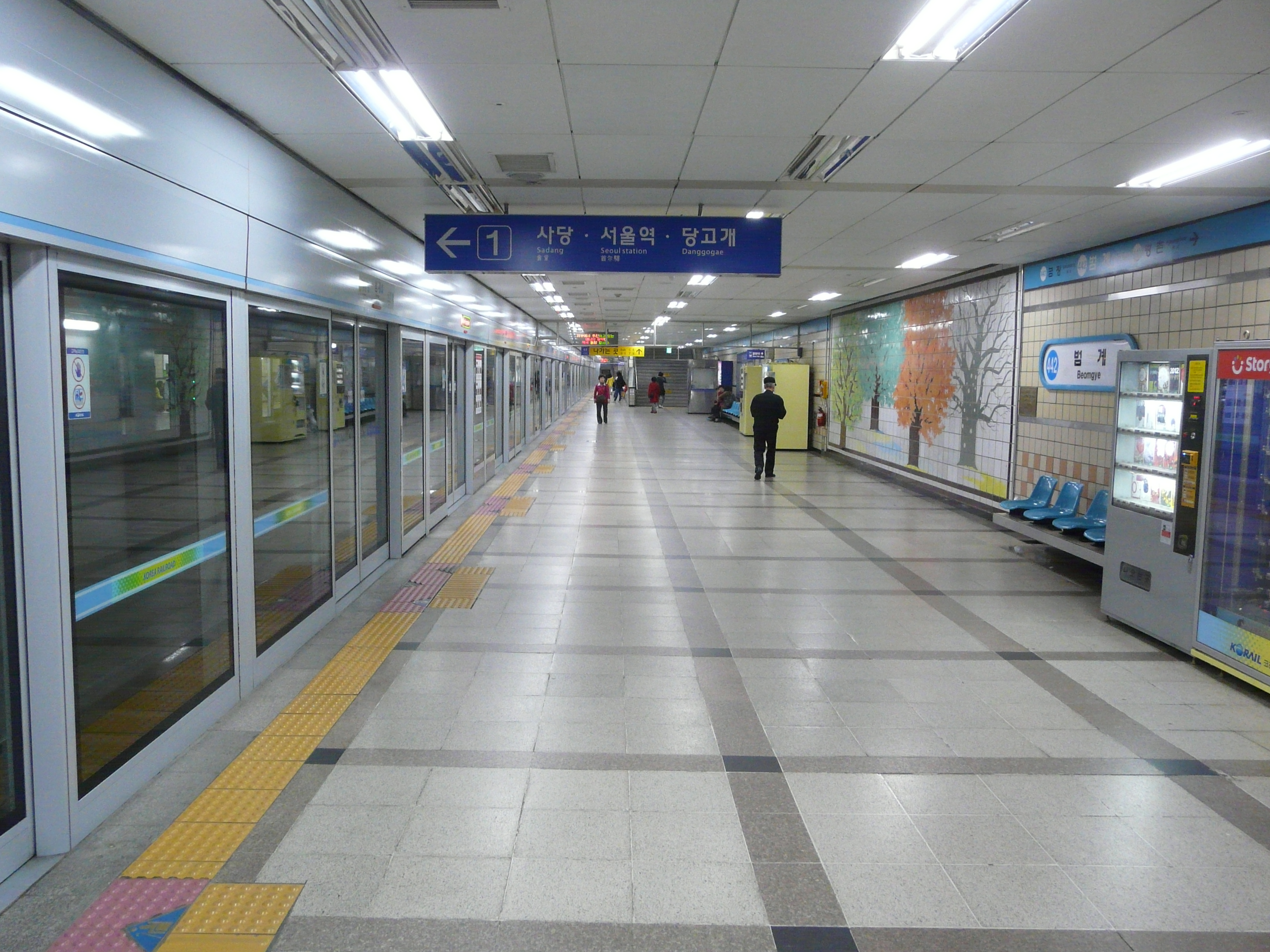 Photos from the city of Anyang, Korea.